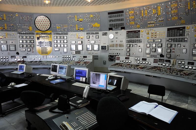 Inside the control room of the "dead" Units 1 and 2 of the Kozloduy Nuclear Power Plant: most displays are dark. The reactors have been shut down in 2003 and now there is no nuclear fuel in them.